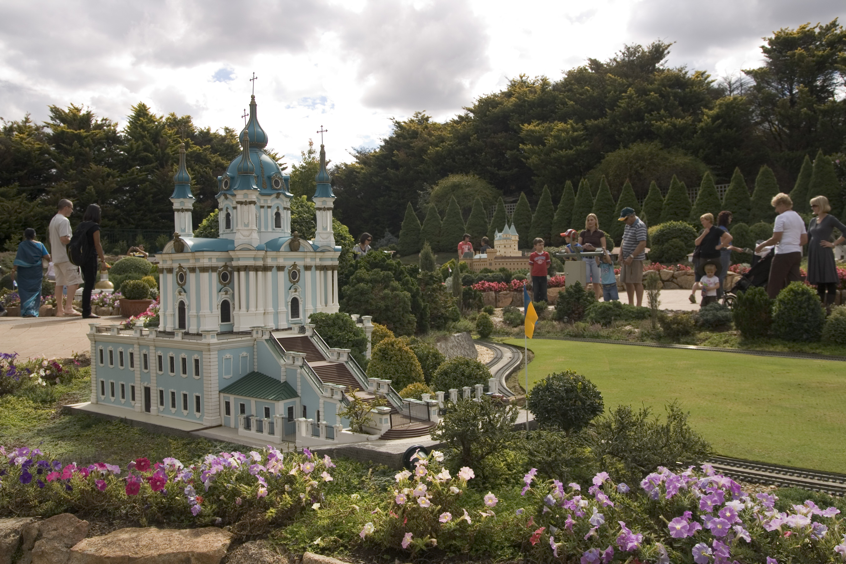 Cockington green - St. Andrews Church, Kiev, Ukraine